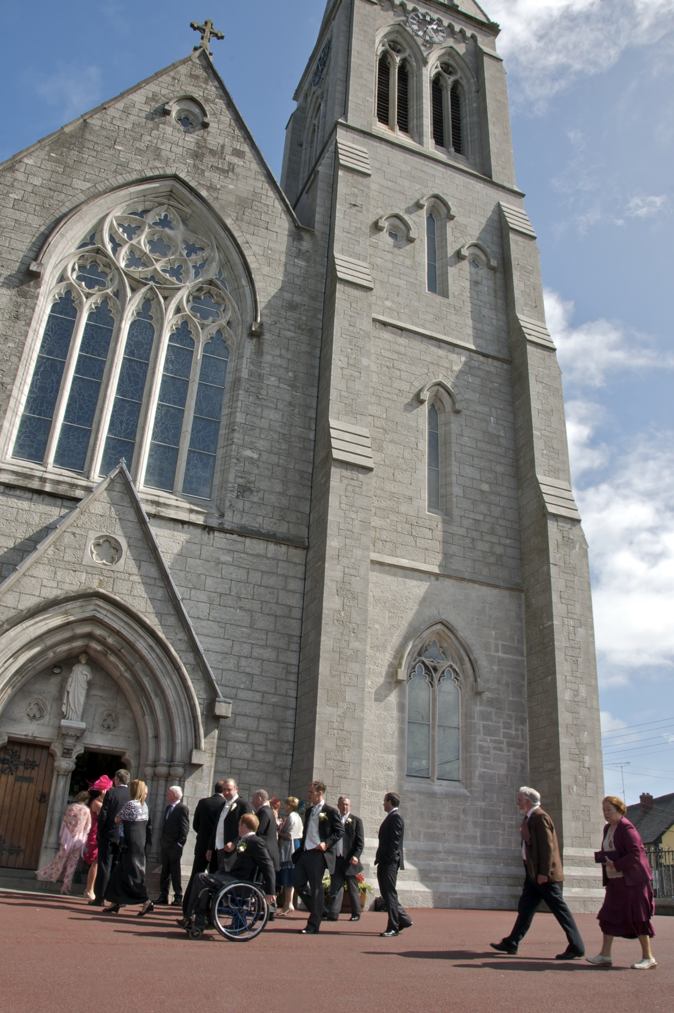 St. Joseph's Church, Carrickmacross, Co. Monaghan, Ireland. Designed by J. J. McCarthy in 1861, construction was still not finished when J. J. McCarthy died in 1882 but was afterwards by his son C. J. McCarthy, finished in 1888(?).